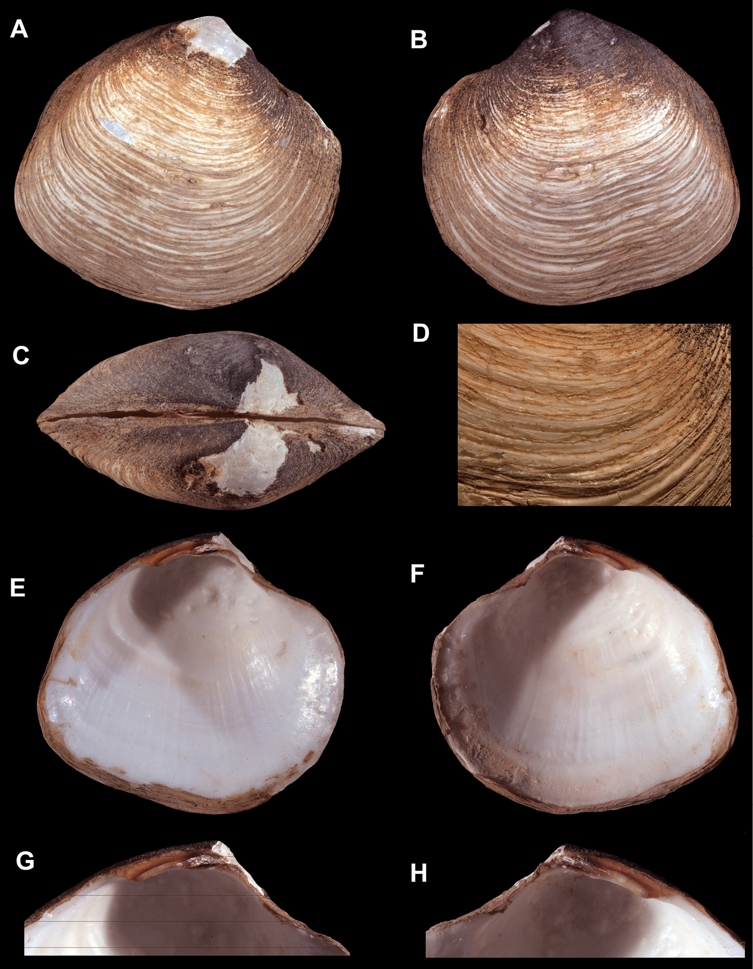 Maorithyas hadalis, holotype, NSMT 71431, length = 26.7 mm, height = 24.1 mm, width = 13.4 mm. A Exterior of right valve B Exterior of left valve C Dorsal view of both valves D Close up of periostracum of right valve E Interior of left valve F Interior of right valve G Close up of hinge of left valve H Close up of hinge of right valve.